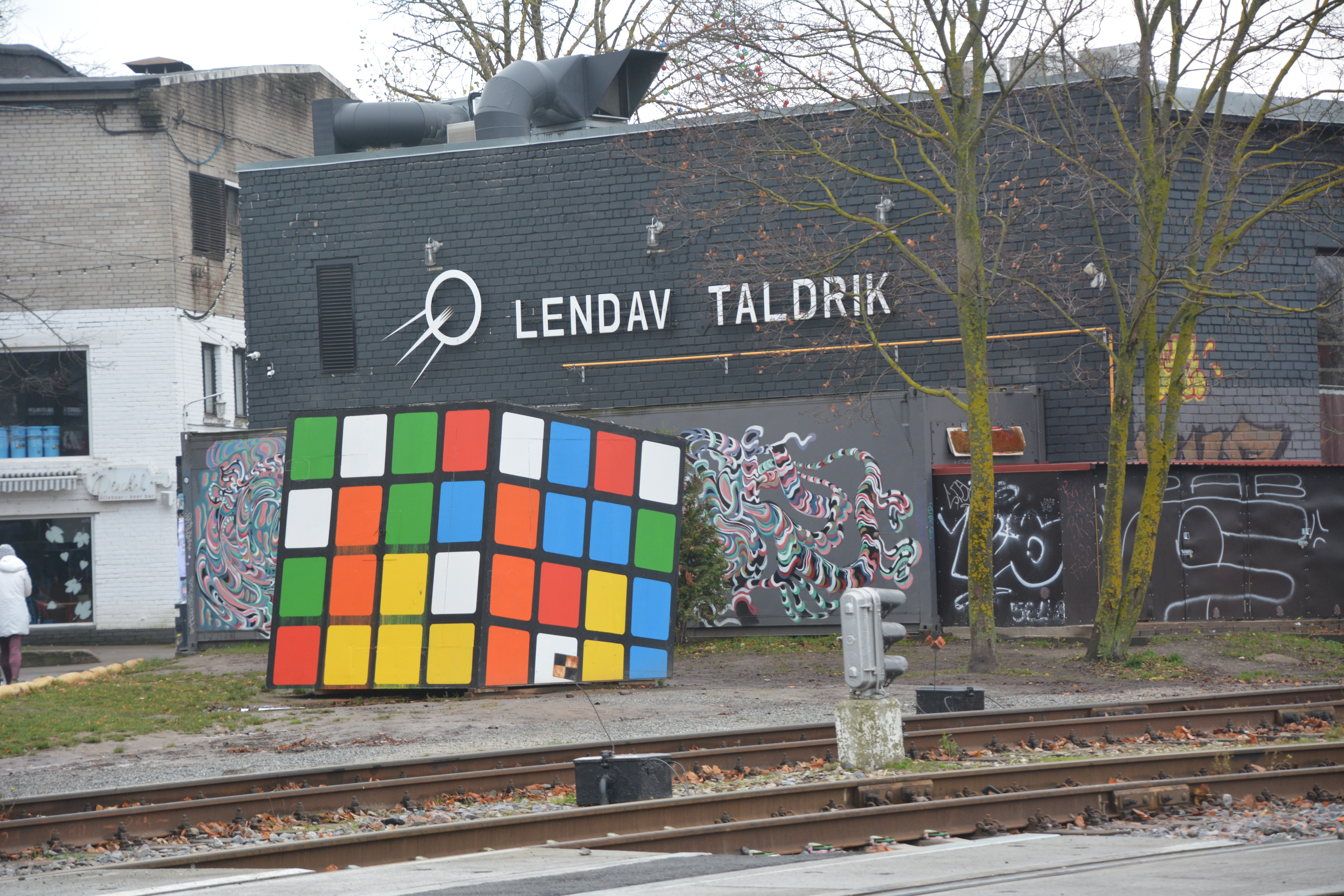 Rubil's cube at Telliskivi Road Tallinn